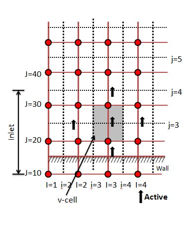 v-cell at physical boundary j=3